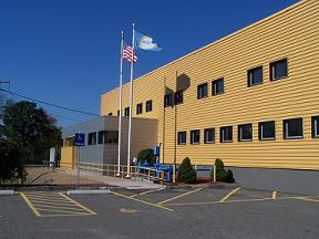 Kristen Swett, City of Boston Archives Assistant Archivist, created on September 28, 2009.